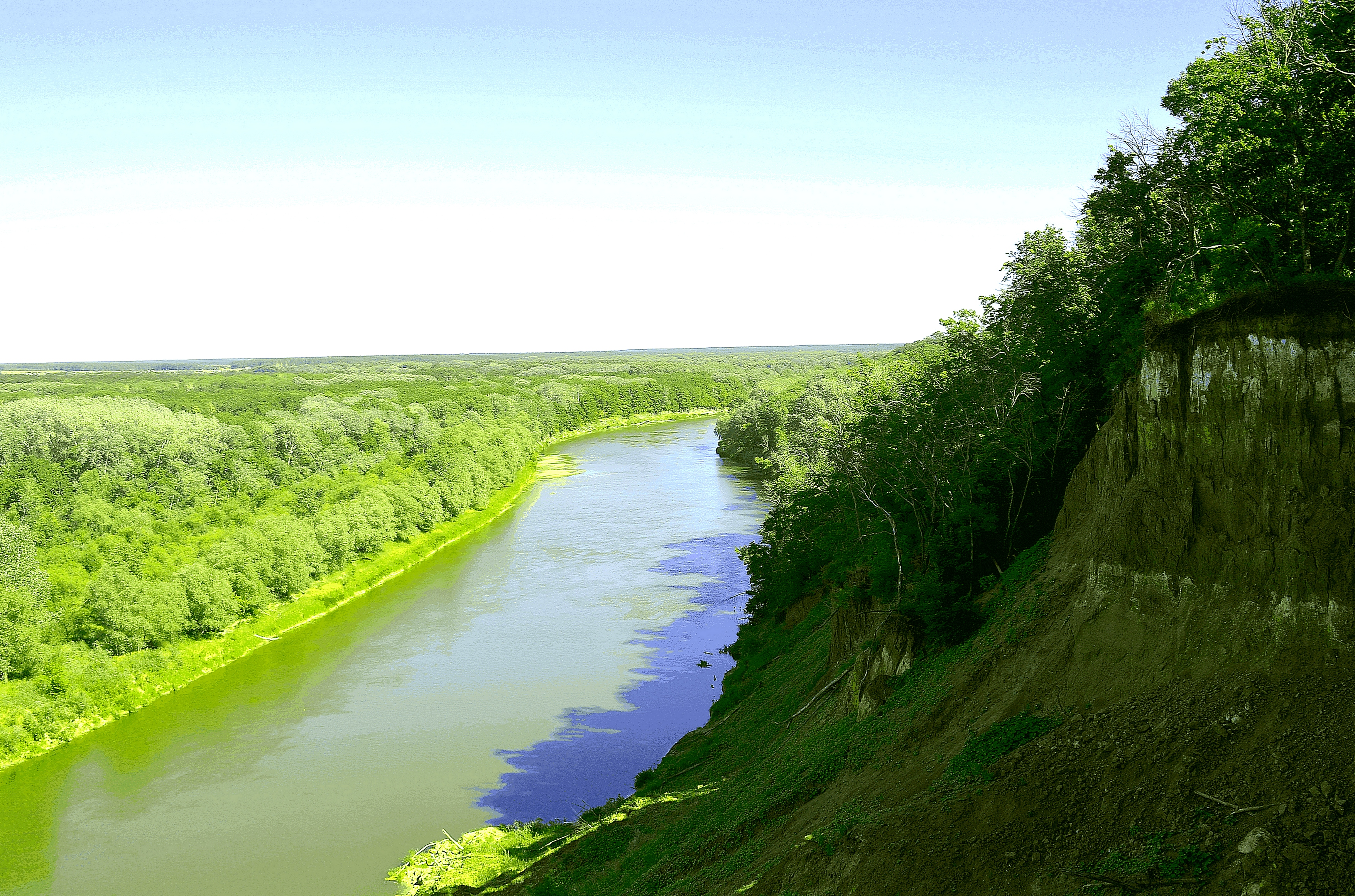 Khopersky reserve: The reserve is located in the southeastern part of the Oka-Don lowland on the banks of the Khoper River, on the territory of the Novokhopersky, Povorinsky and Gribanovsky districts of the Voronezh Region, Novokhopersky District, Voronezh Region This image is related to the protected area of Russia number 3600098